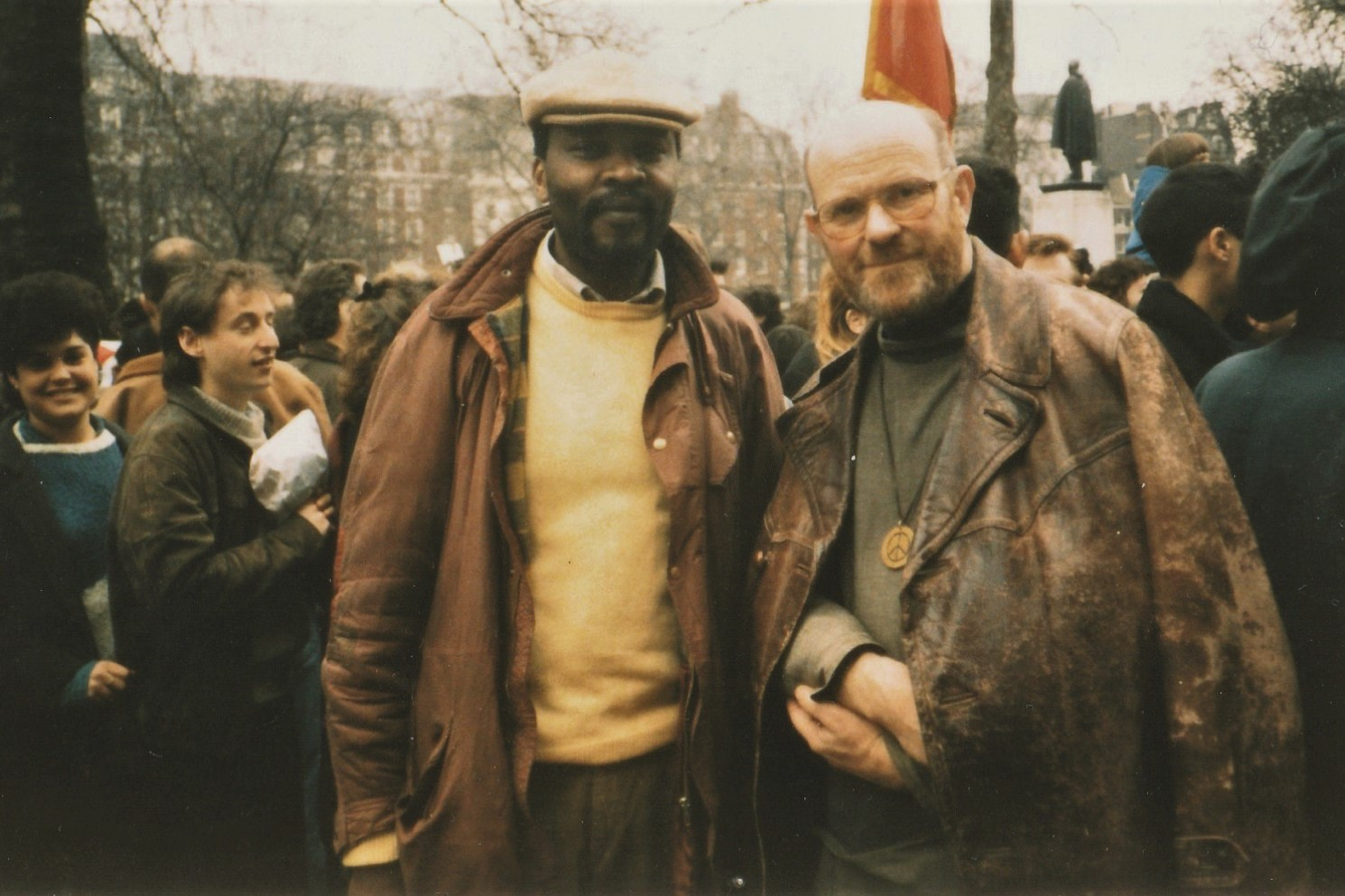 A picture of Paul Oestreicher at a protest against the bombing of Libya in 1986 with a friend.